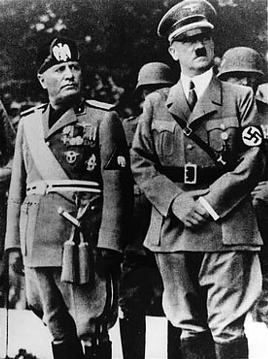 Benito Mussolini and Adolf Hitler stand together on an reviewing stand during Mussolini's official visit in Munich.